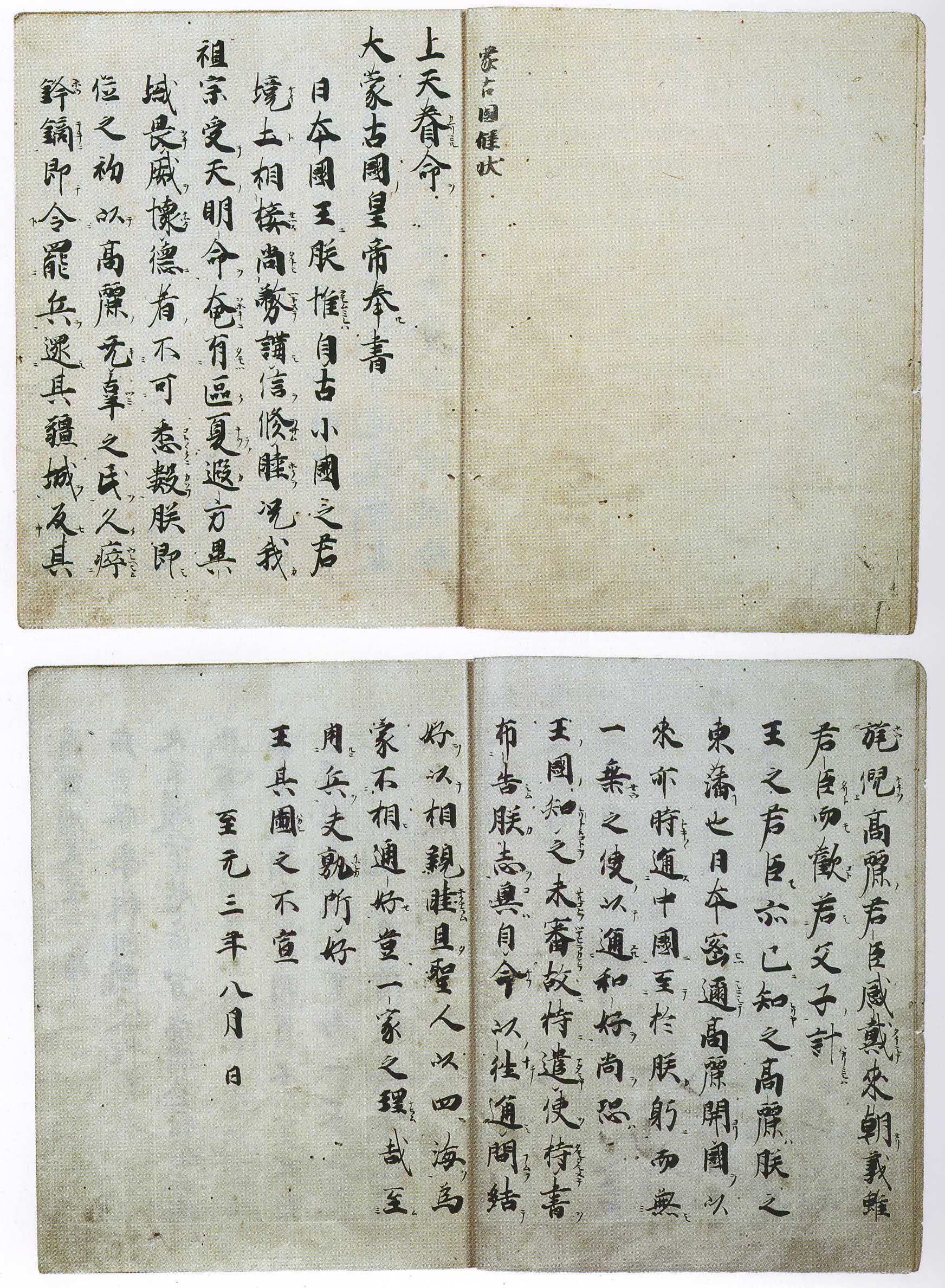 Letter from Qubilai Qa'an(「大蒙古國皇帝」 =the Emperor of Yeke Mongol Ulus) to "the King of Japan"(「日本國王」＝天皇, the Emperor of Japan), 8th Month, 1266. The picture shows a copy from 1268. Original is 25.5 cm high and 39.4 cm wide. Contained in 『調伏異朝怨敵抄』 the "records about the subjugation of foreign states through buddhist virtues" (?), Todai-ji temple, Nara, Japan